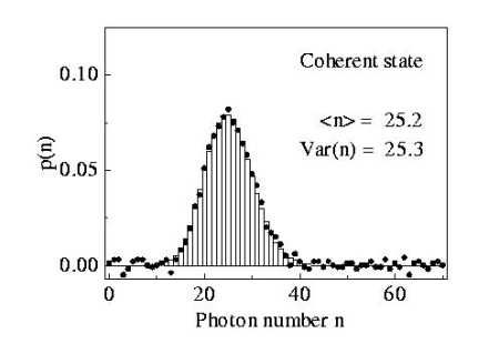 measured photon number distribution of a coherent state